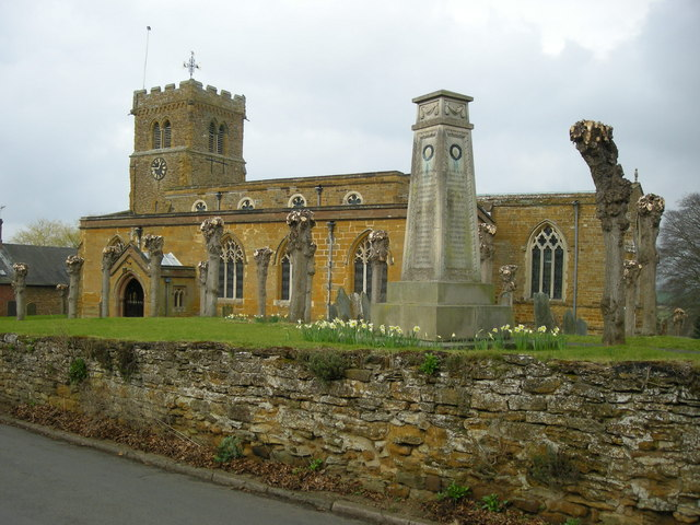 Long Buckby Church Saint Lawrence Church and the War Memorial.